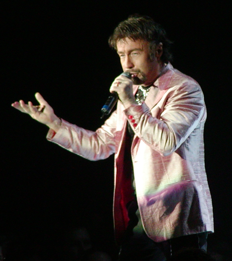 Queen + Paul Rodgers live in Frankfurt, Germany